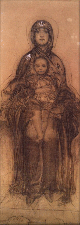 Icon Study - The Blessed Virgin Mary With Child by Mikhail Vrubel, Kiev, 1884-1885.